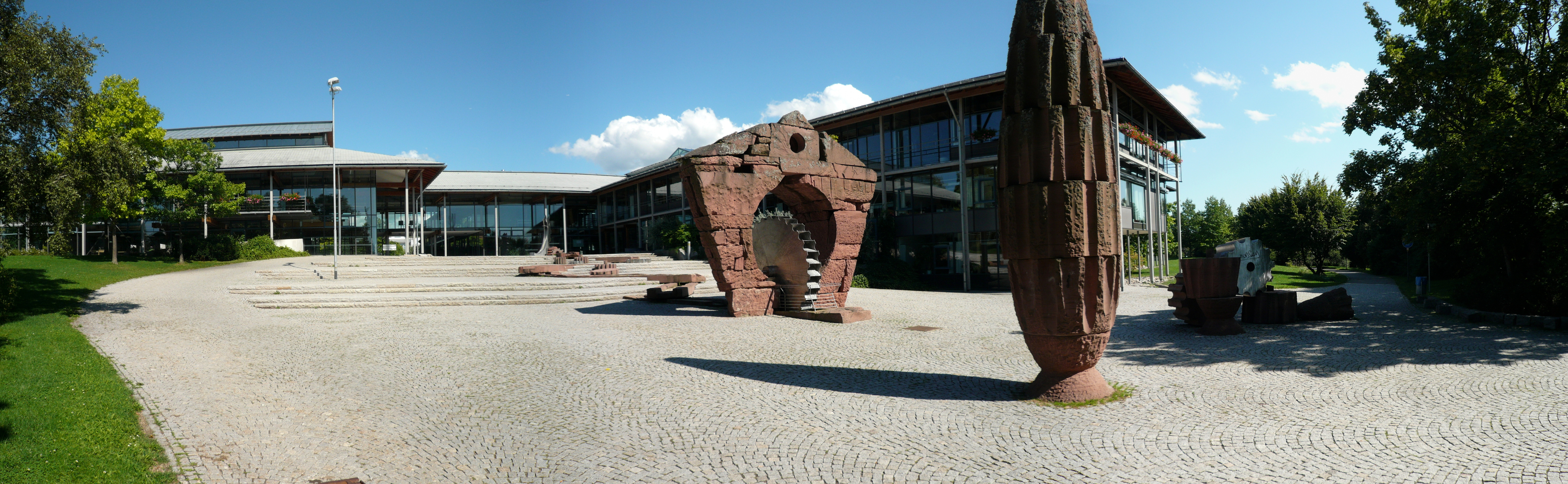 Landratsamt (county administration) at Villingen